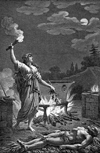 Nicolas-André Monsiau 1754-1837 Medea rejuvenates Aeson